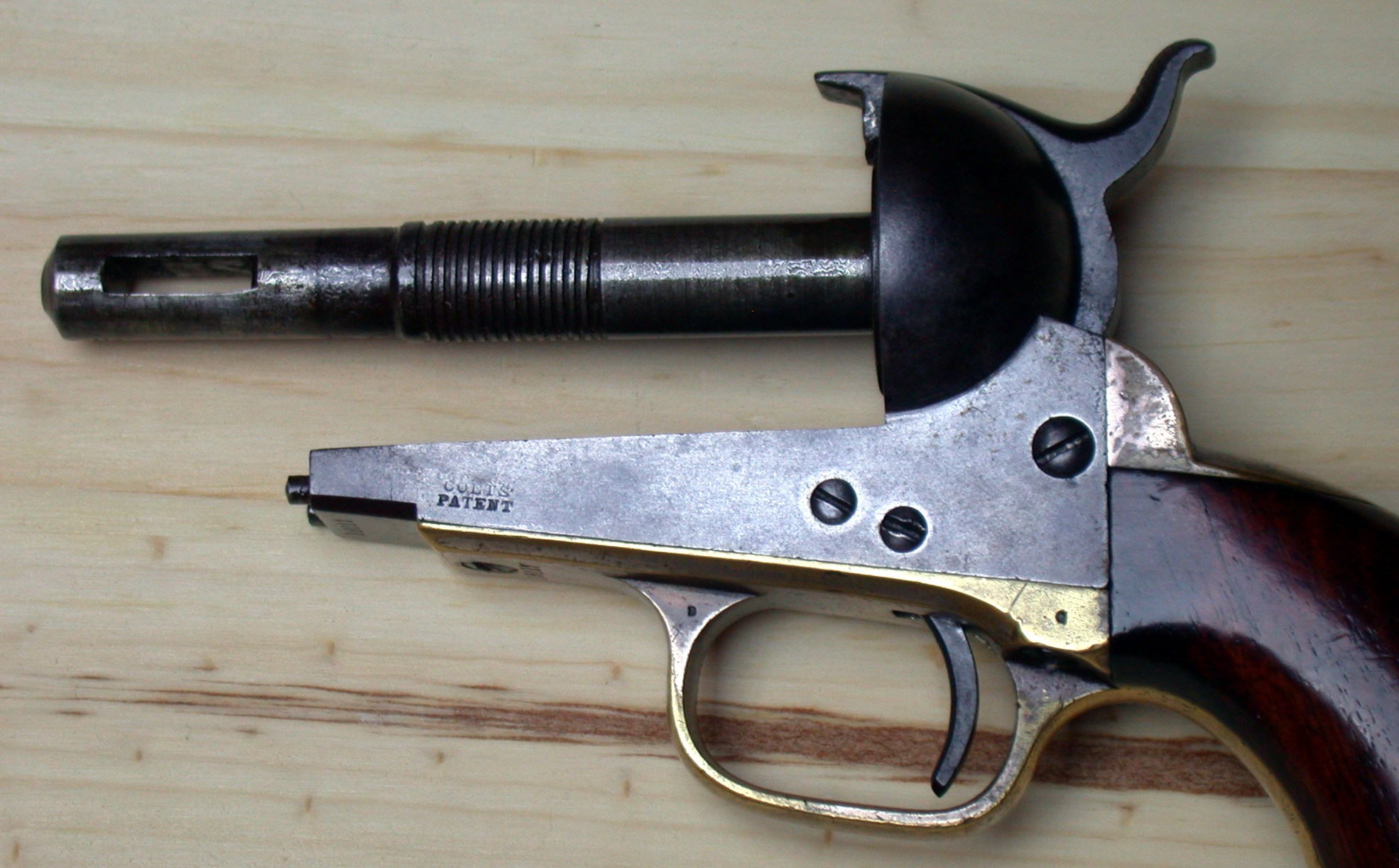 Colt Dragoon frame with arbor (base) pin